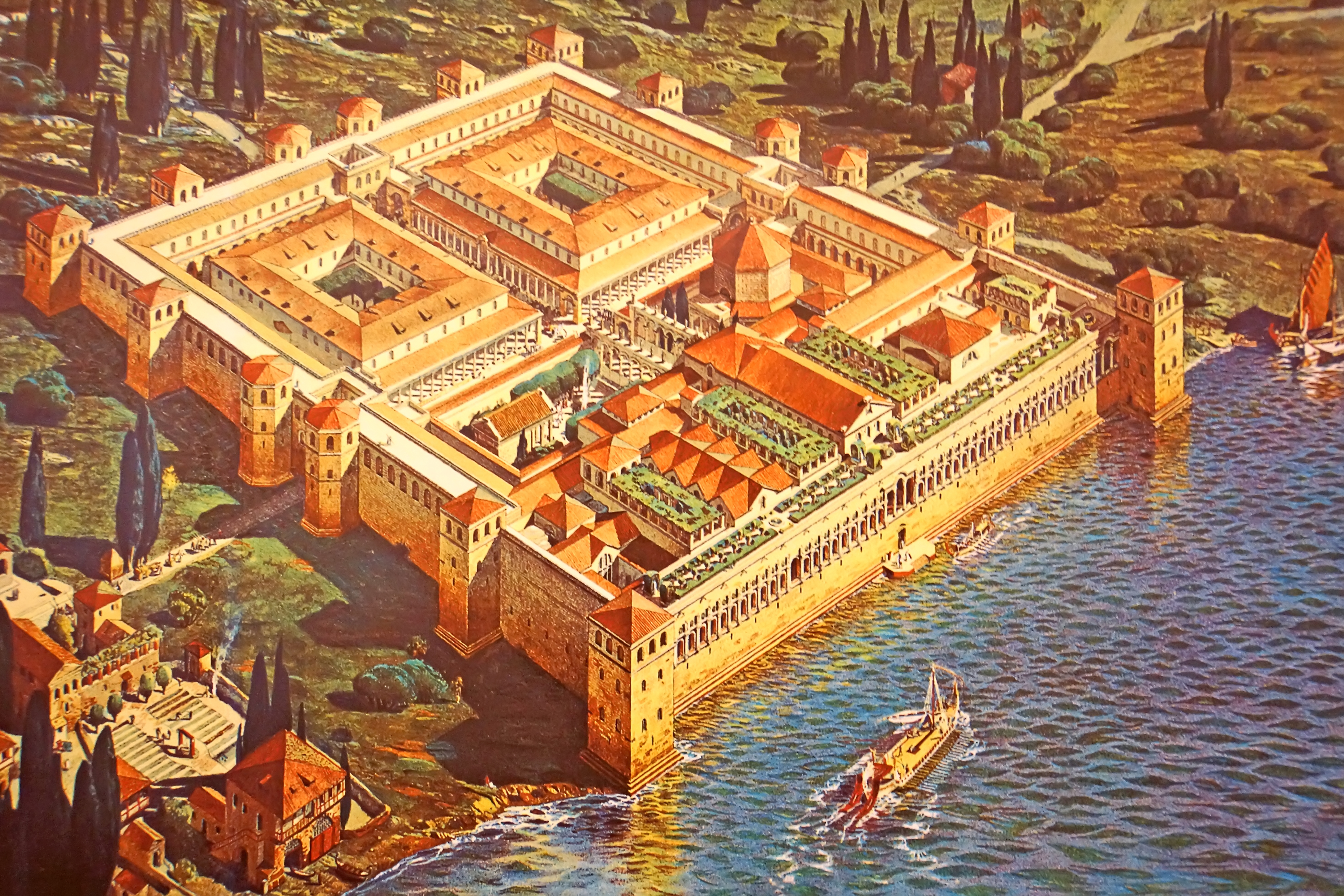 PLEASE,invitations or self promotion in your comments, THEY WILL BE DELETED. My photos are FREE for anyone to use, just give me credit and it would be nice if you let me know, thanks - NONE OF MY PICTURES ARE HDR. This is our next stop - Diocletian's Palace in Split. Diocletian built the massive palace in preparation for his retirement on 1 May 305 AD. It lies in a bay on the south side of a short peninsula running out from the Dalmatian coast, four miles from Salona, the capital of the Roman province of Dalmatia. After the Romans abandoned the site, the Palace remained empty for several centuries. In the 7th century nearby residents fled to the walled palace to escape invading barbarians. Since then the palace has been occupied, with residents making their homes and businesses within the palace basement and directly in its walls. Today many restaurants and shops, and some homes, can still be found within the walls.